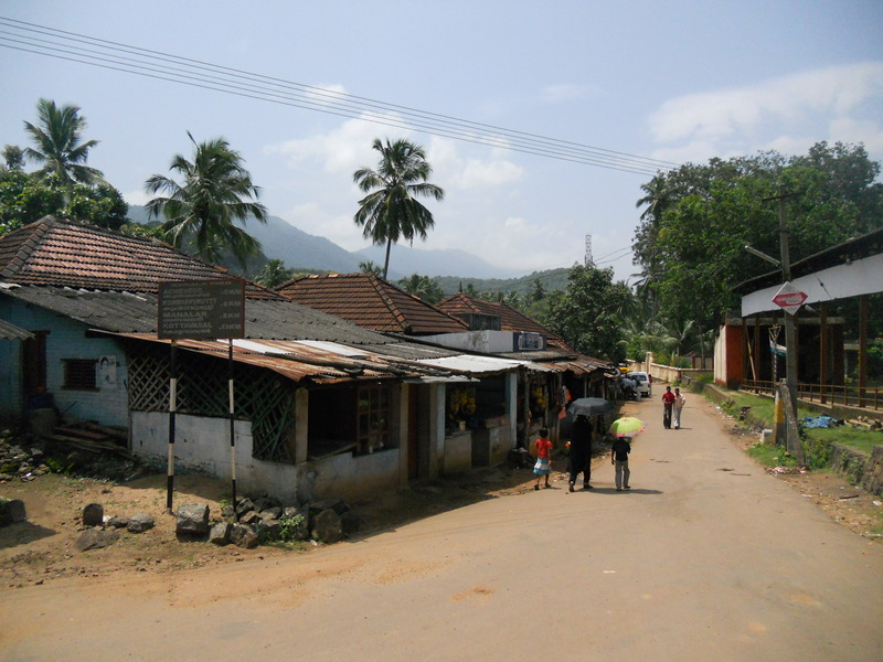 Achencovil village